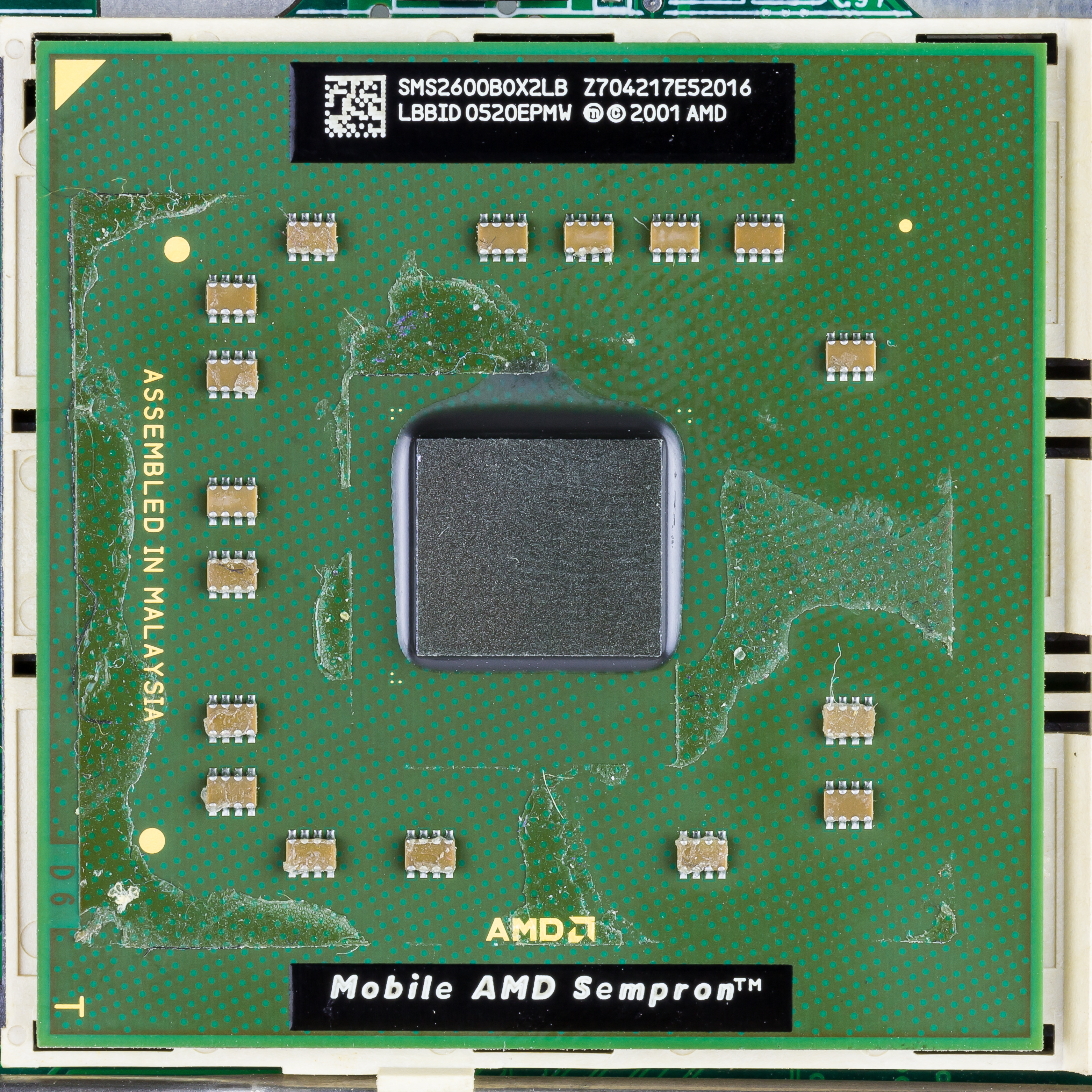 Yakumo Notebook 536S - AMD Mobile Sempron 2600+, Part Number: SMS2600BOX2LB, "Sonora" (Socket 754, D0, 90 nm, Low power)